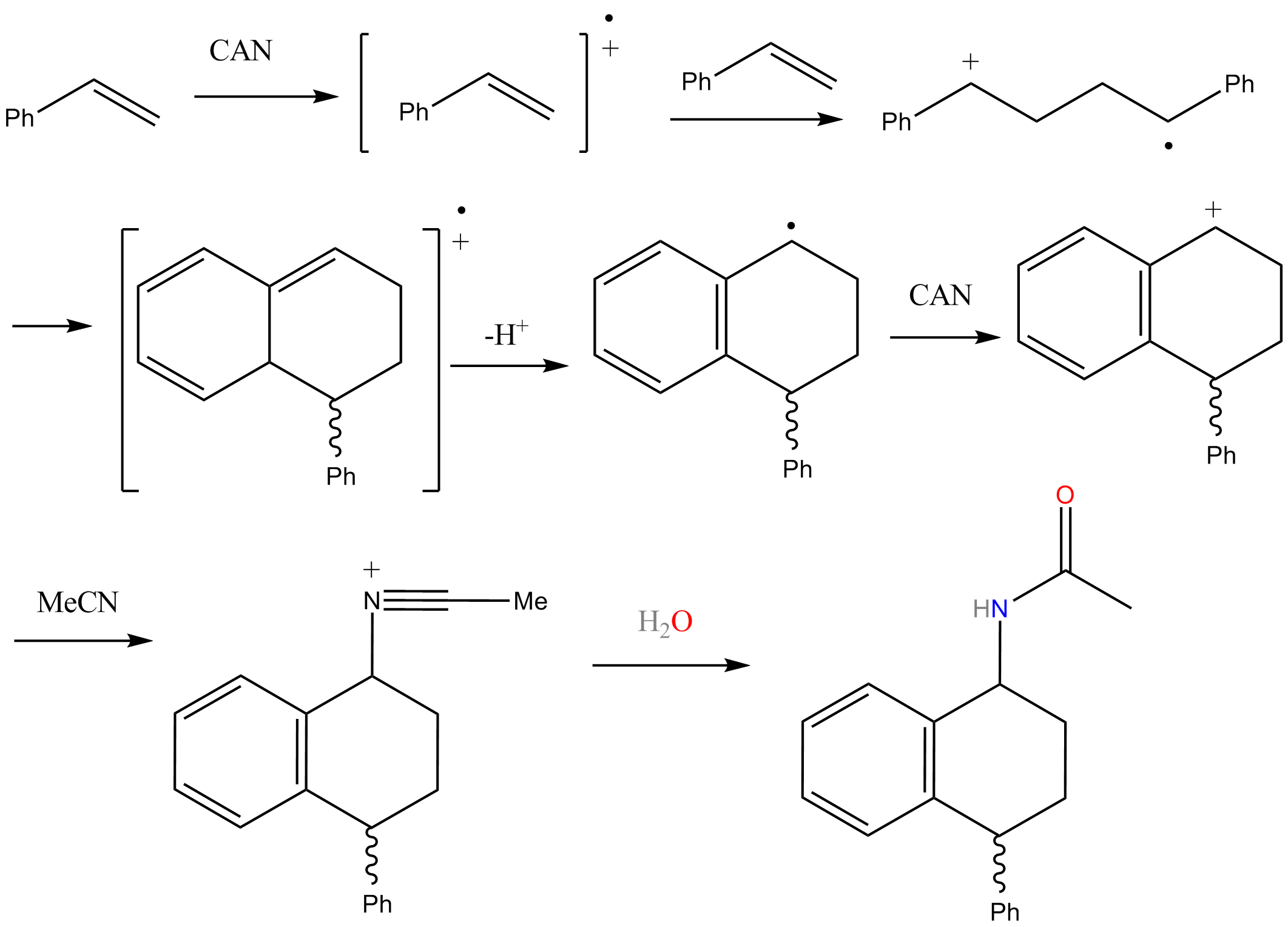 proposed mechanism